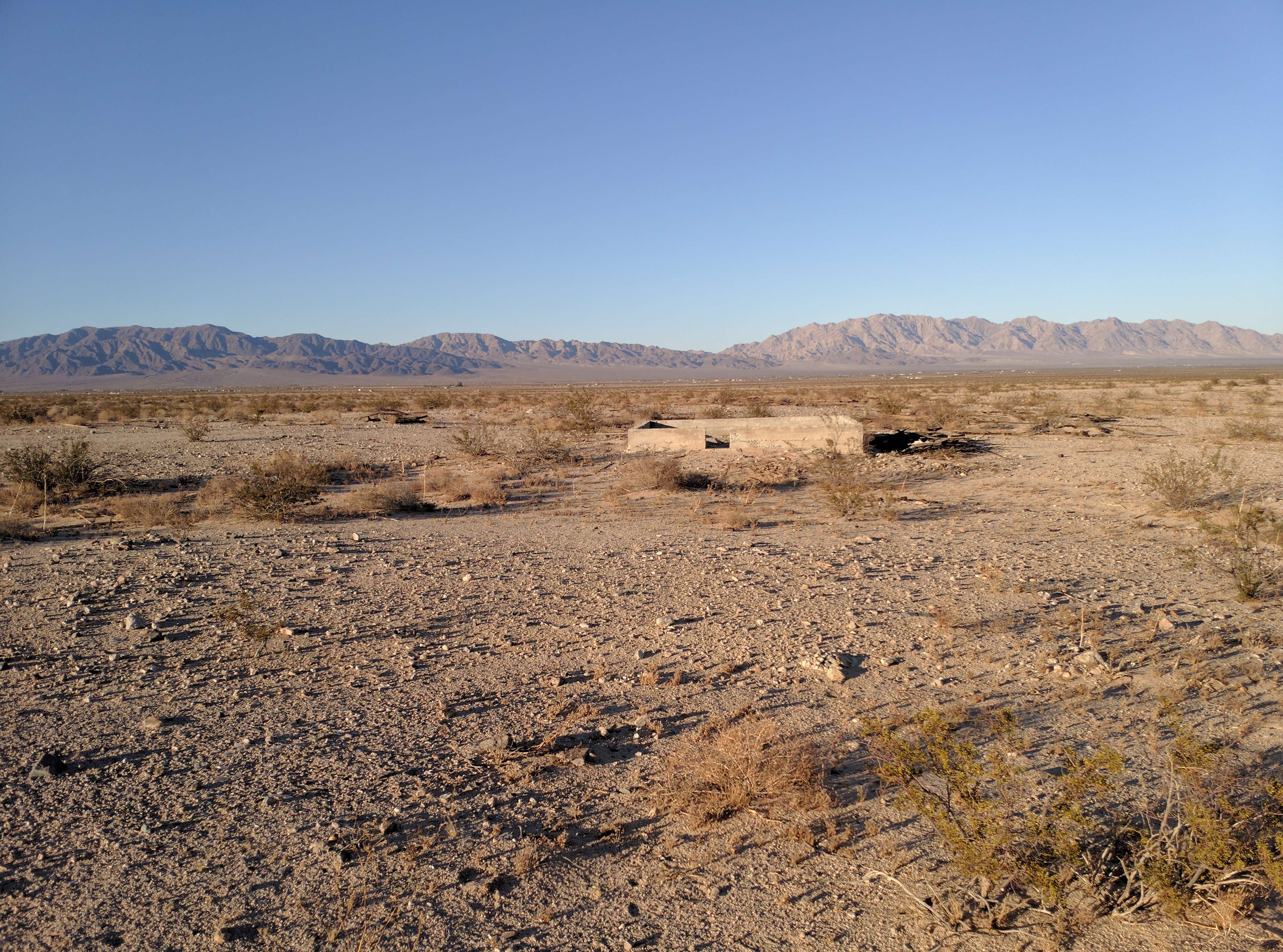 Foundation of a derelict recreational cabin in Wonder Valley, California